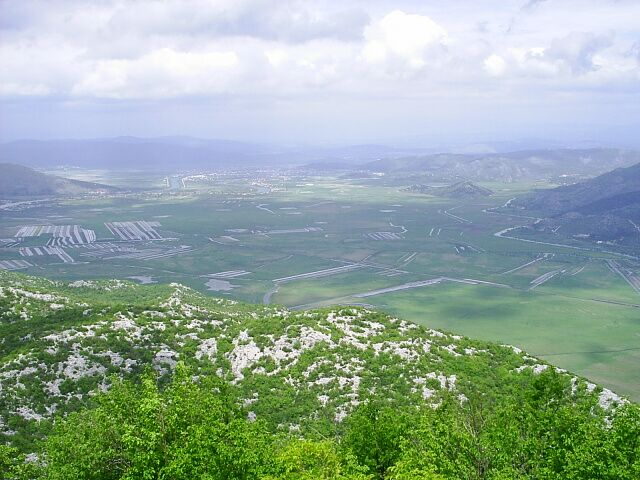 Neretva River delta in southern Croatia